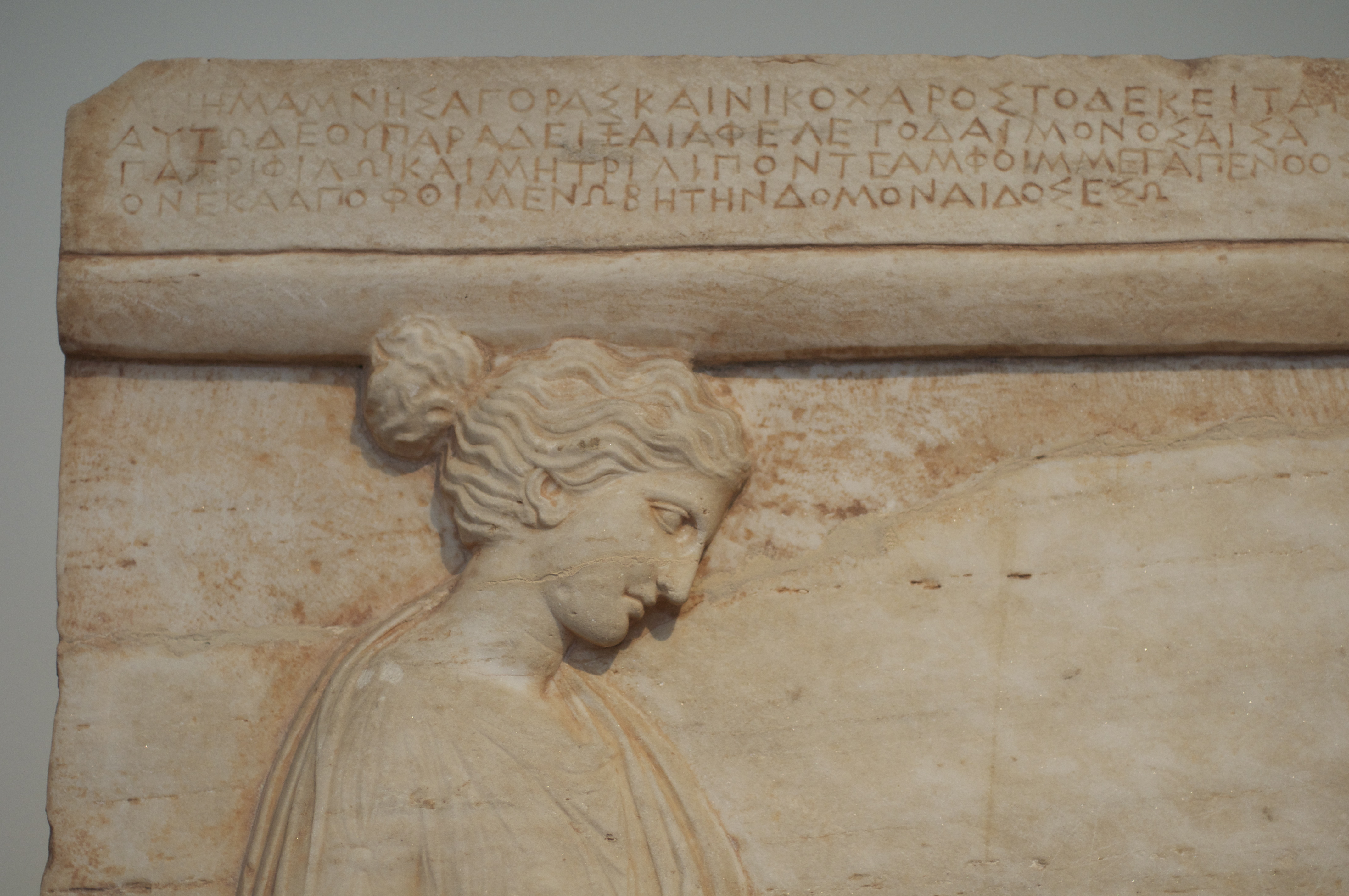 Archaeological museum, Athens